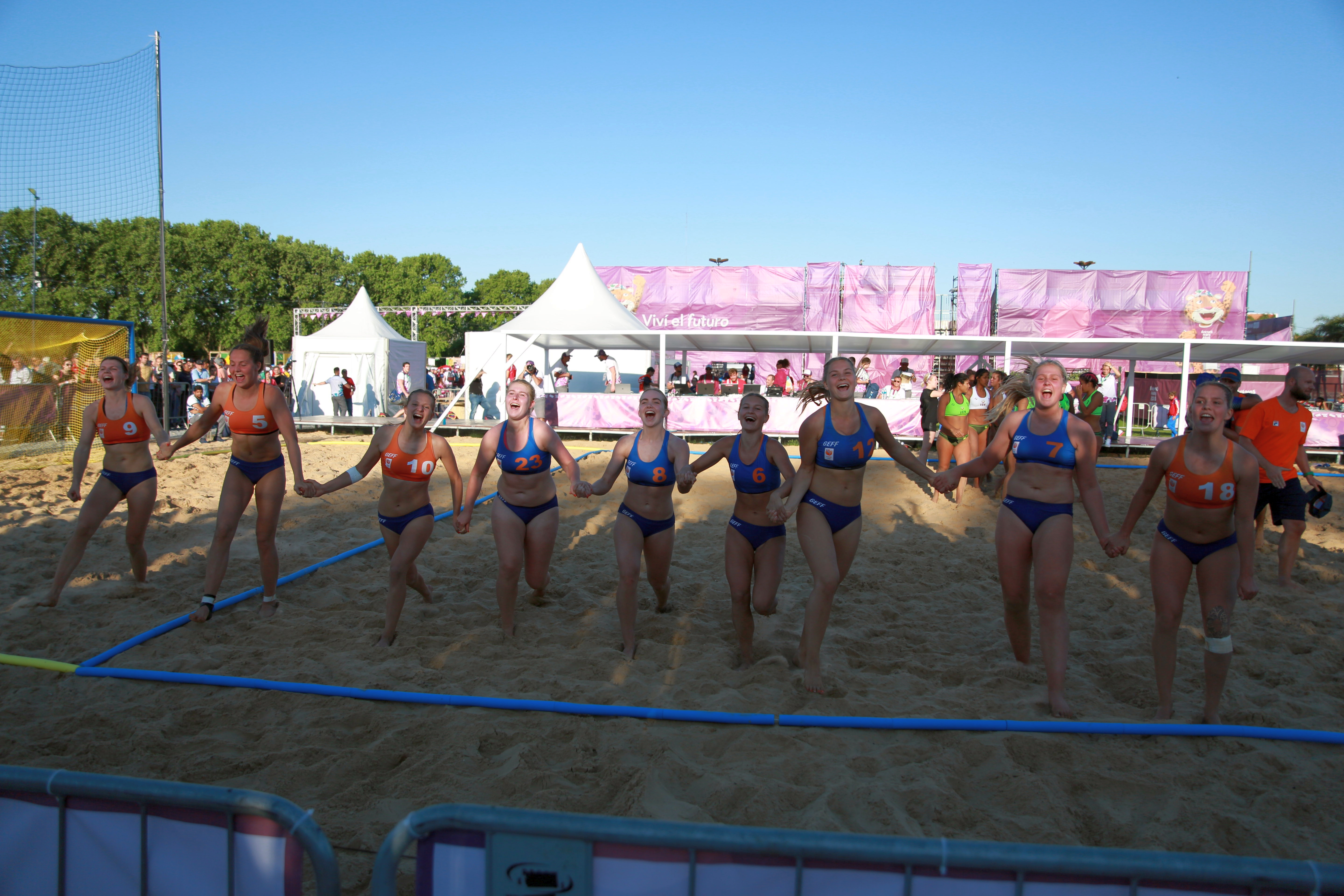 Beach handball at the 2018 Summer Youth Olympics at 9 October 2018 – Girls Preliminary Round Group B – Venezuela-Netherlands 1:2